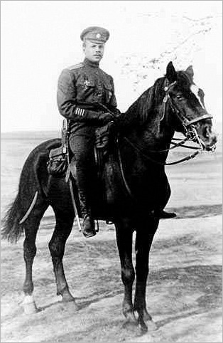 Colonel Y. A. Slashchov (1885-1929)